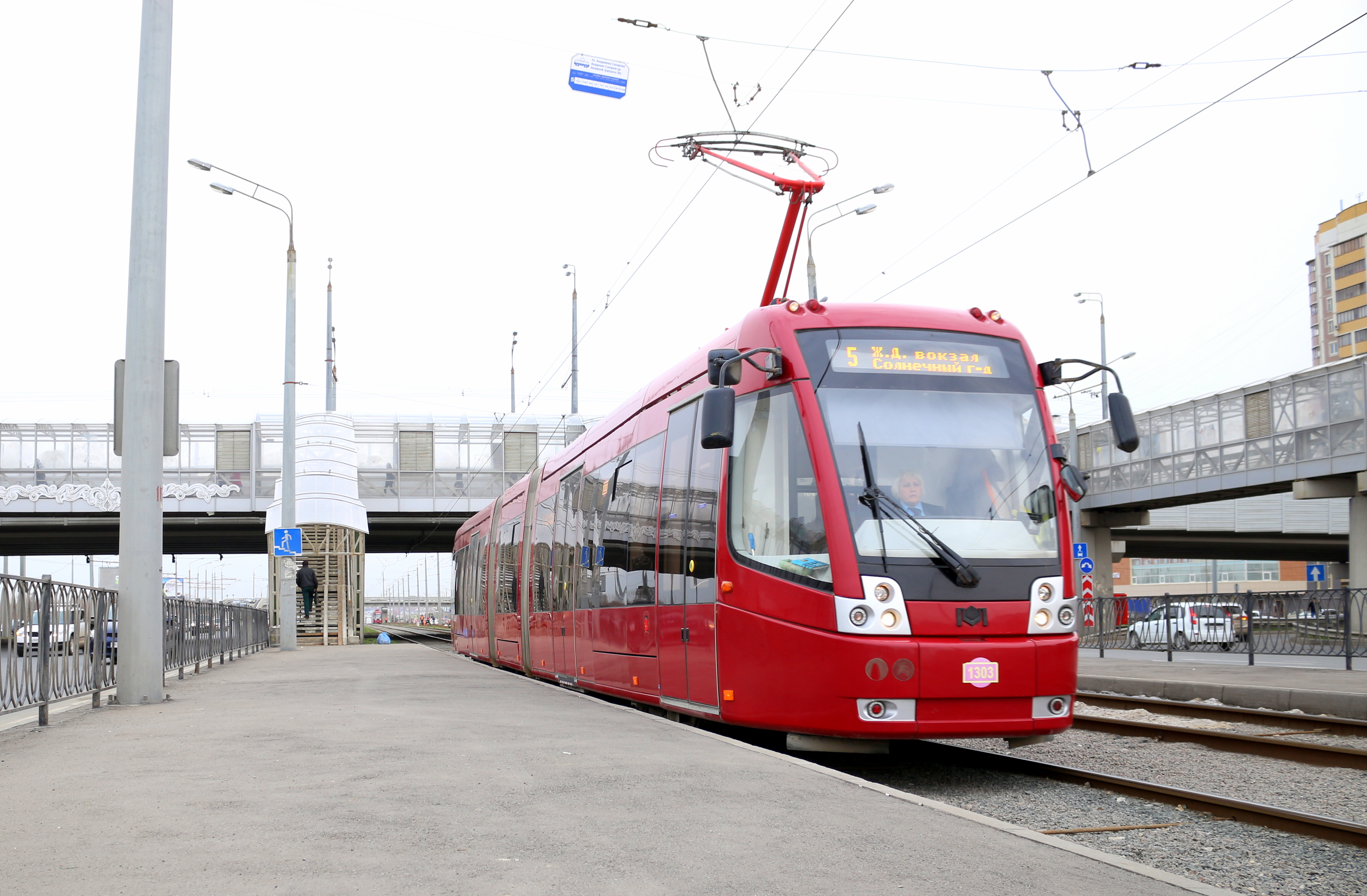 AKSM-84300 in Kazan-city.